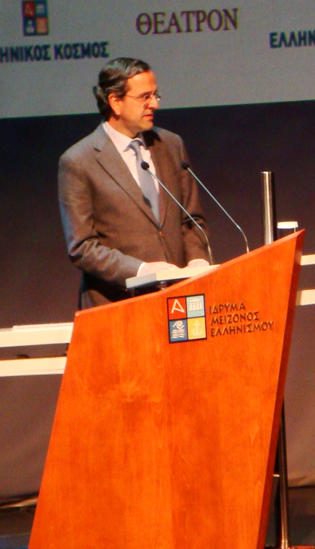 Antonis Samaras, Web Science Conference